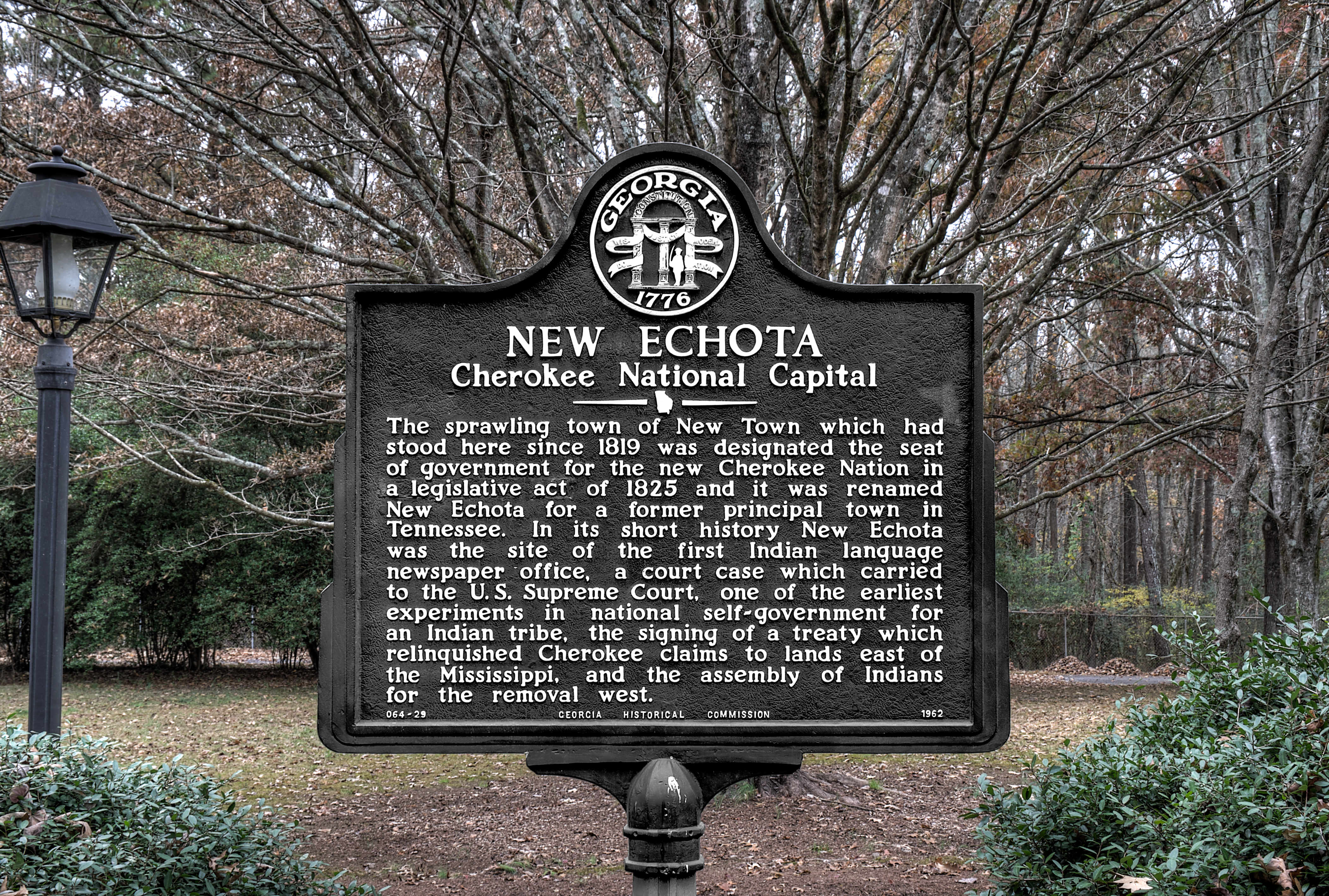 New Echota sign